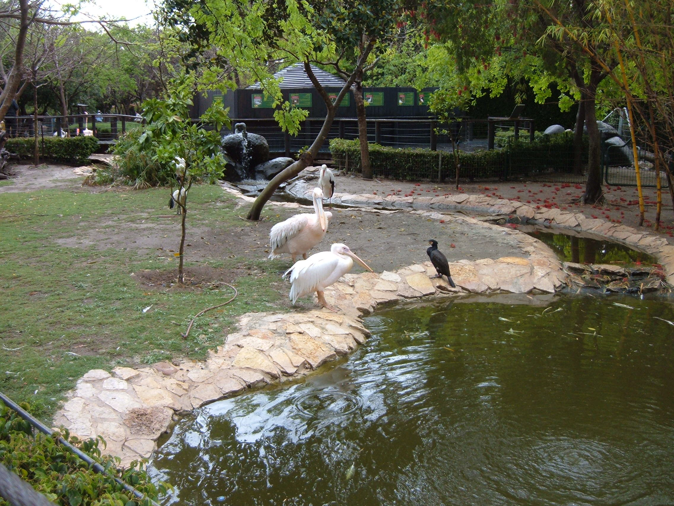 Wildlife and Plants of Israel